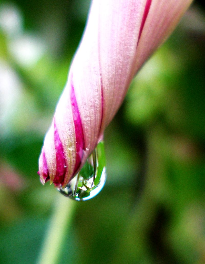 Morning GloryMorning glory with a raindrop